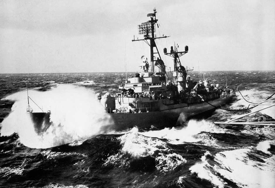 The U.S. Navy destroyer USS Richard S. Edwards (DD-950) refueling from the aircraft carrier USS Bon Homme Richard (CVA-31) in heavy seas. Bon Homme Richard was deployed to the Western Pacific from 21 November 1959 to 14 May 1960.